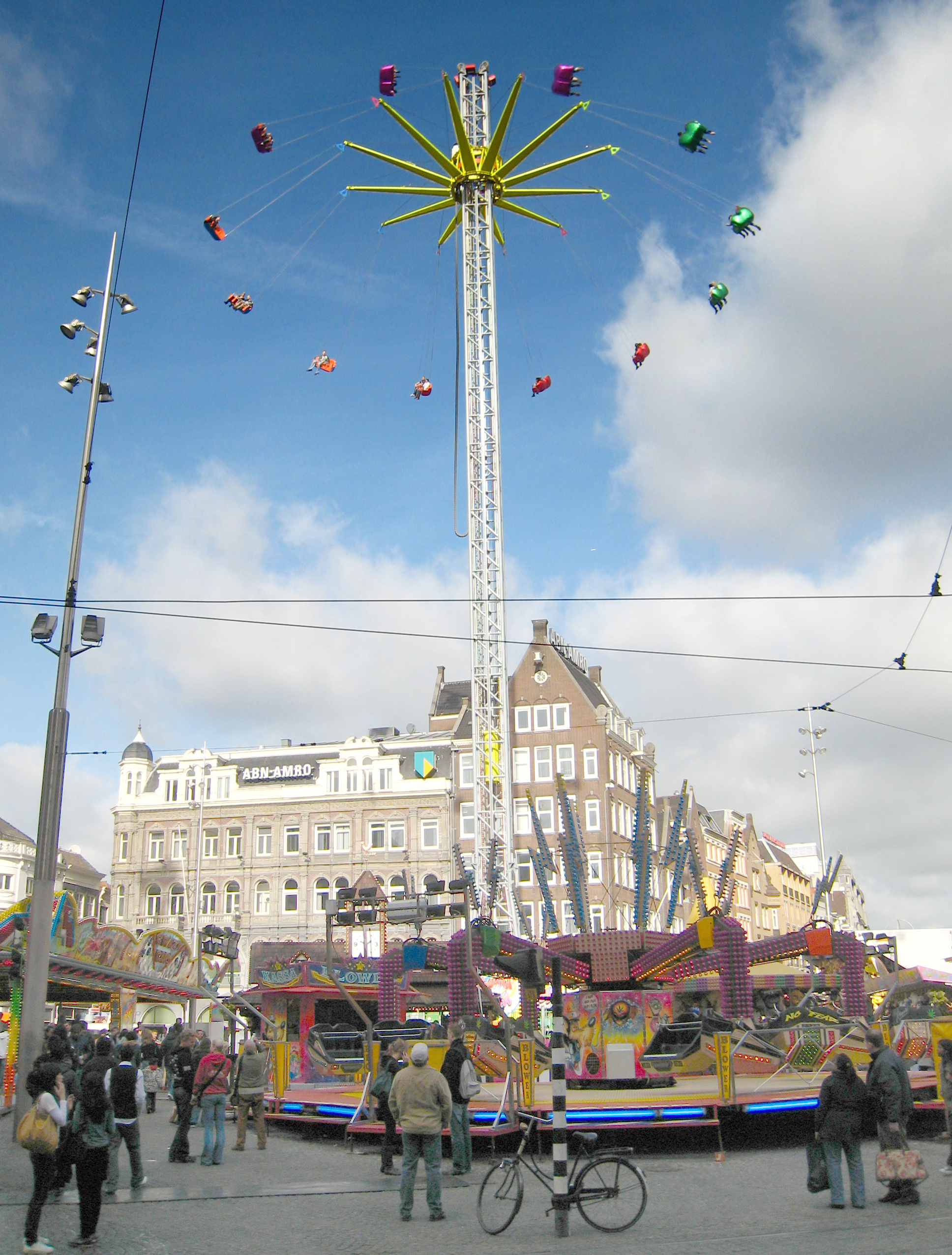 A Fair on Dam Square in Amsterdam, Holland.